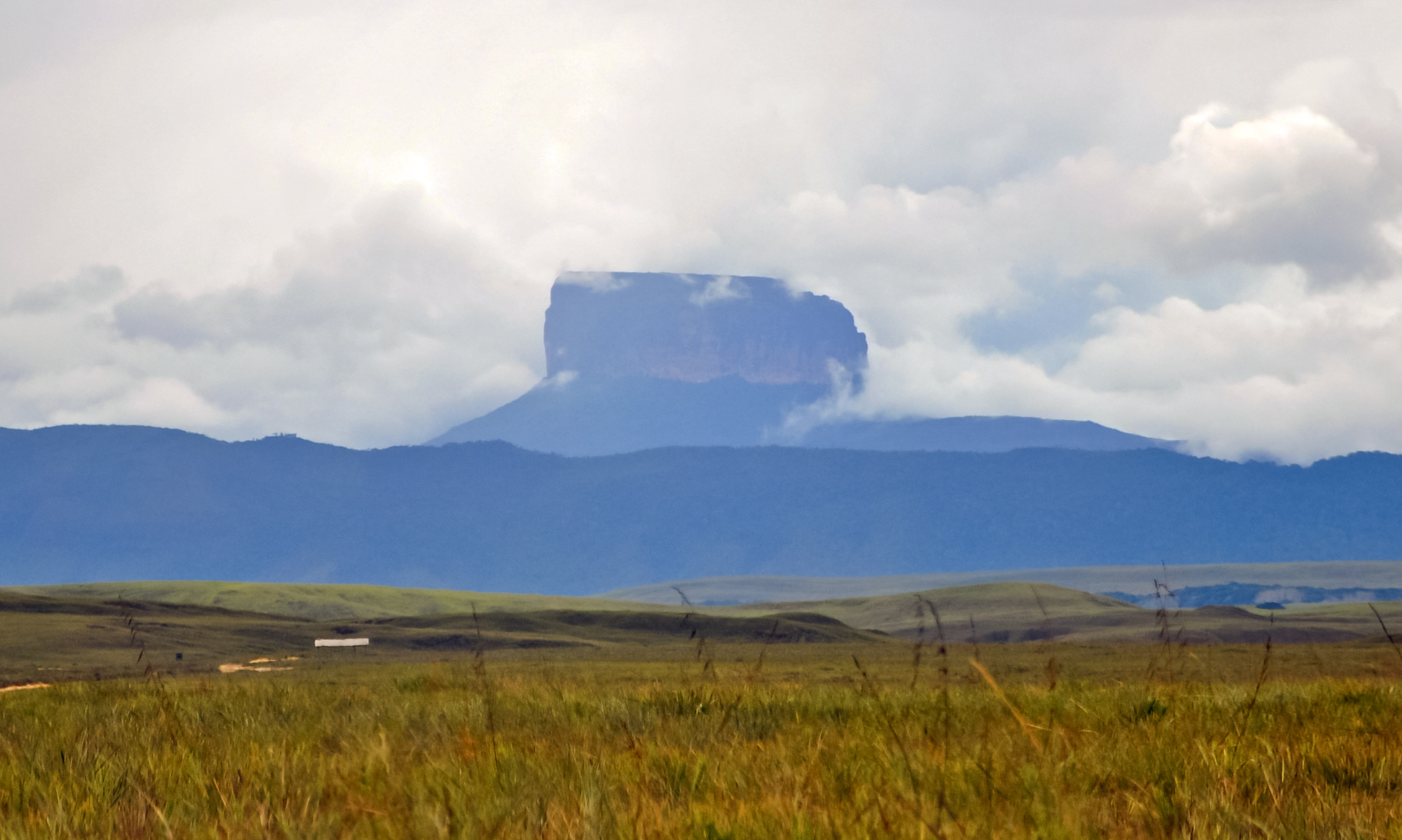 Ptari-tepui, Gran Sabana Venezuela